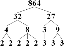 An example of prime decomposition using 864 as the starting number.